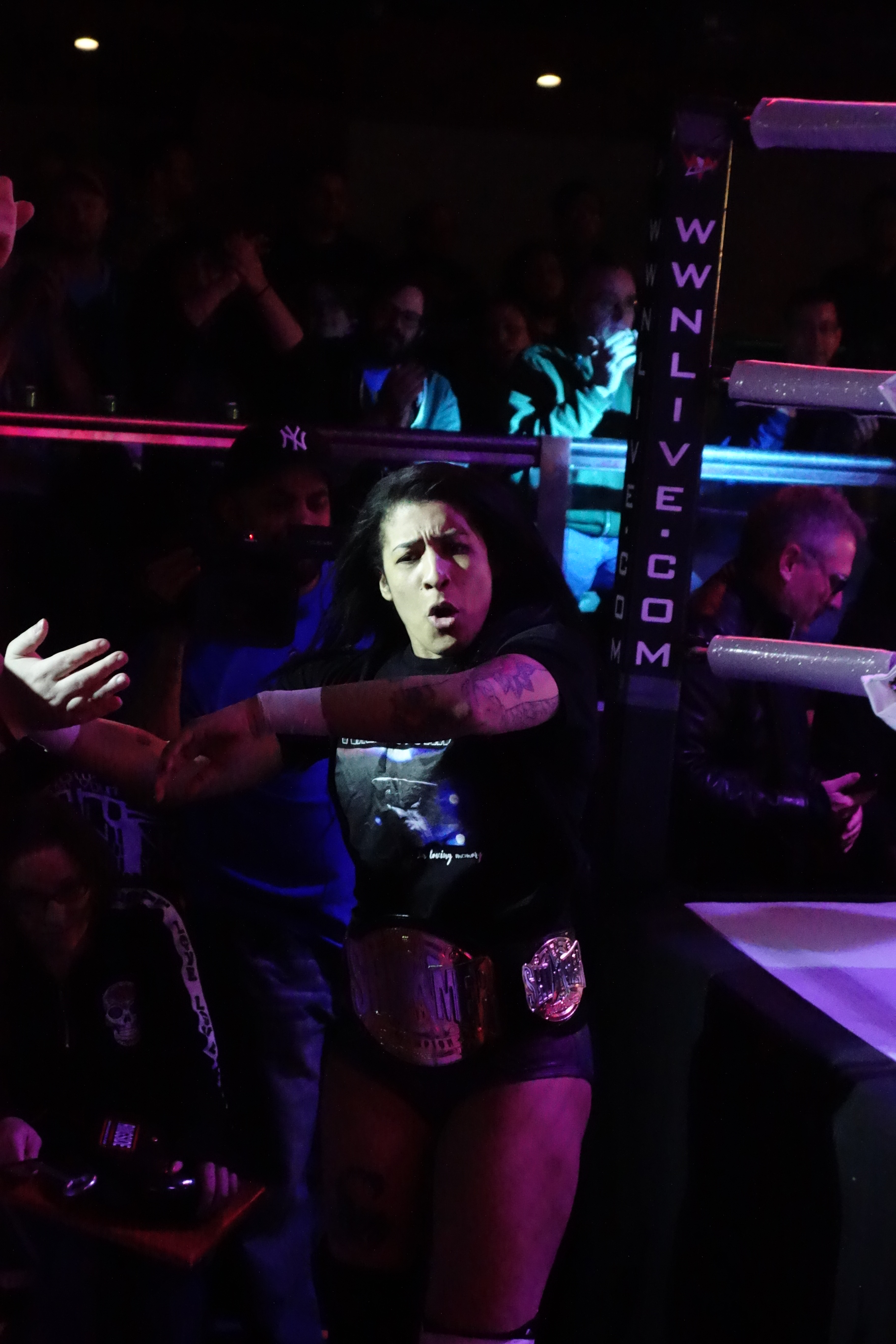 Shimmer Championship match at Shimmer 113 at La Boom in Queens, NY